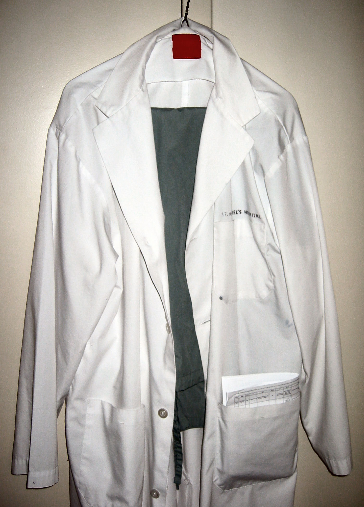 My lab coat and scrubs -- Samir धर्म 11:07, 7 June 2006 (UTC)